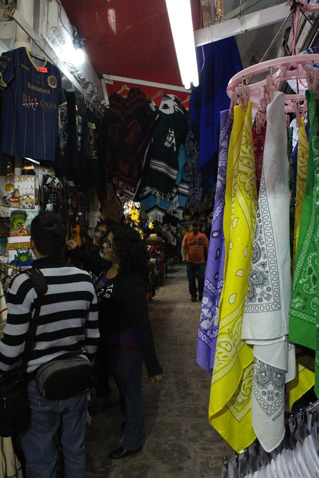 Pasillos Del mercado Zaragoza en Reynosa Tamaulipas abierto desde 1882.